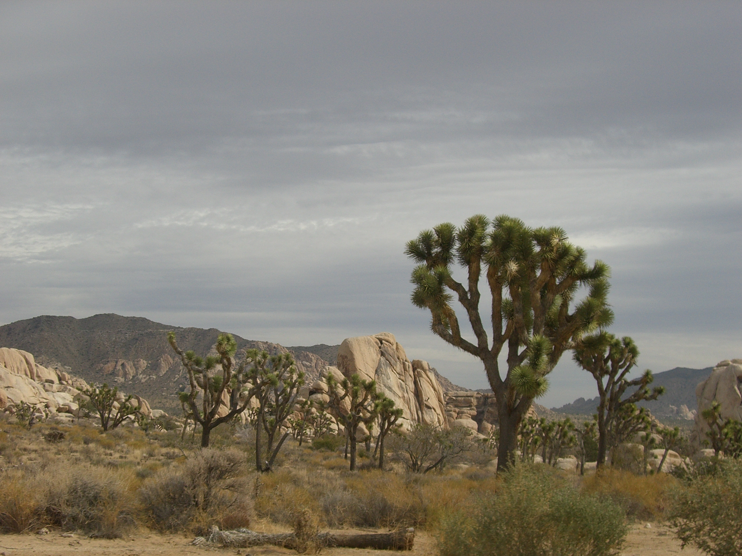 Joshua Tree National Park, California, USA